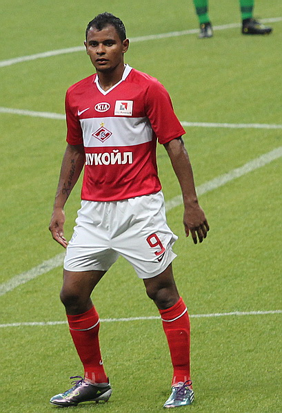 Ariclenes da Silva Ferreira